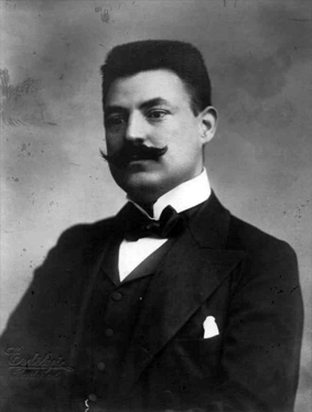 Kálmán von Tellyesniczky